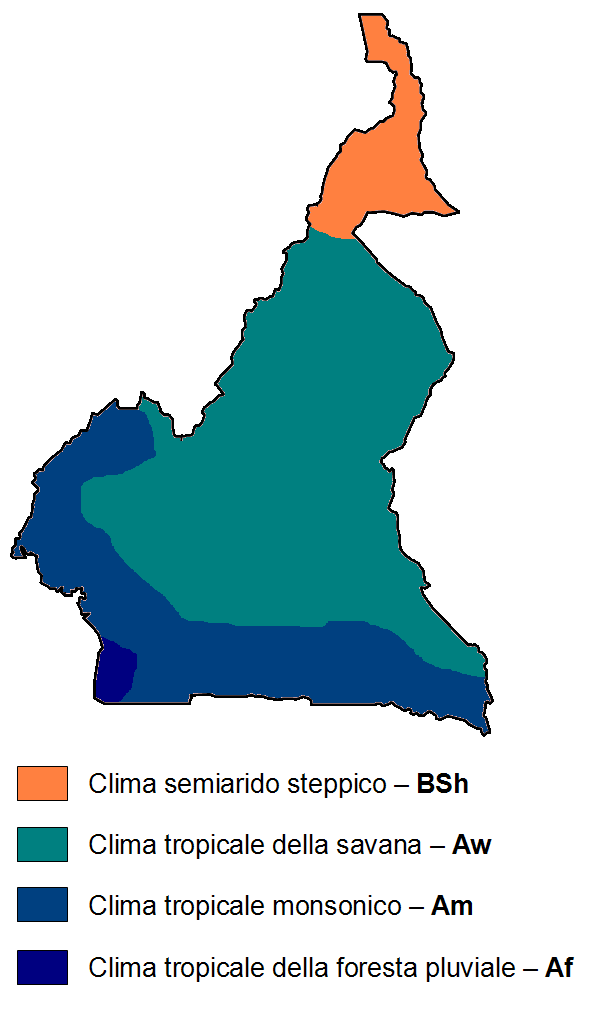 Climates of Cameroon. Information taken from this image.